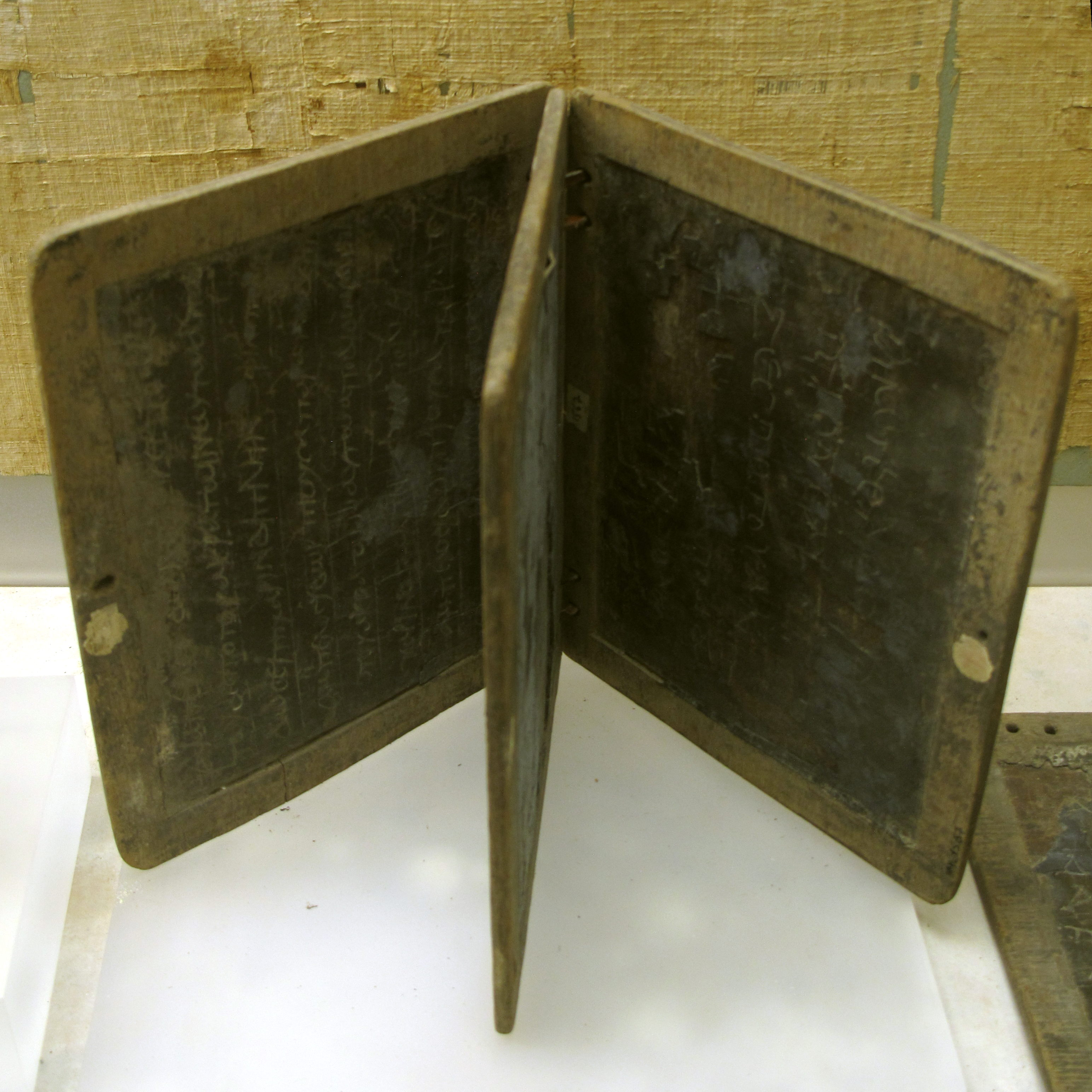 Writing excercices of a schoolchild. 3rd century CE.